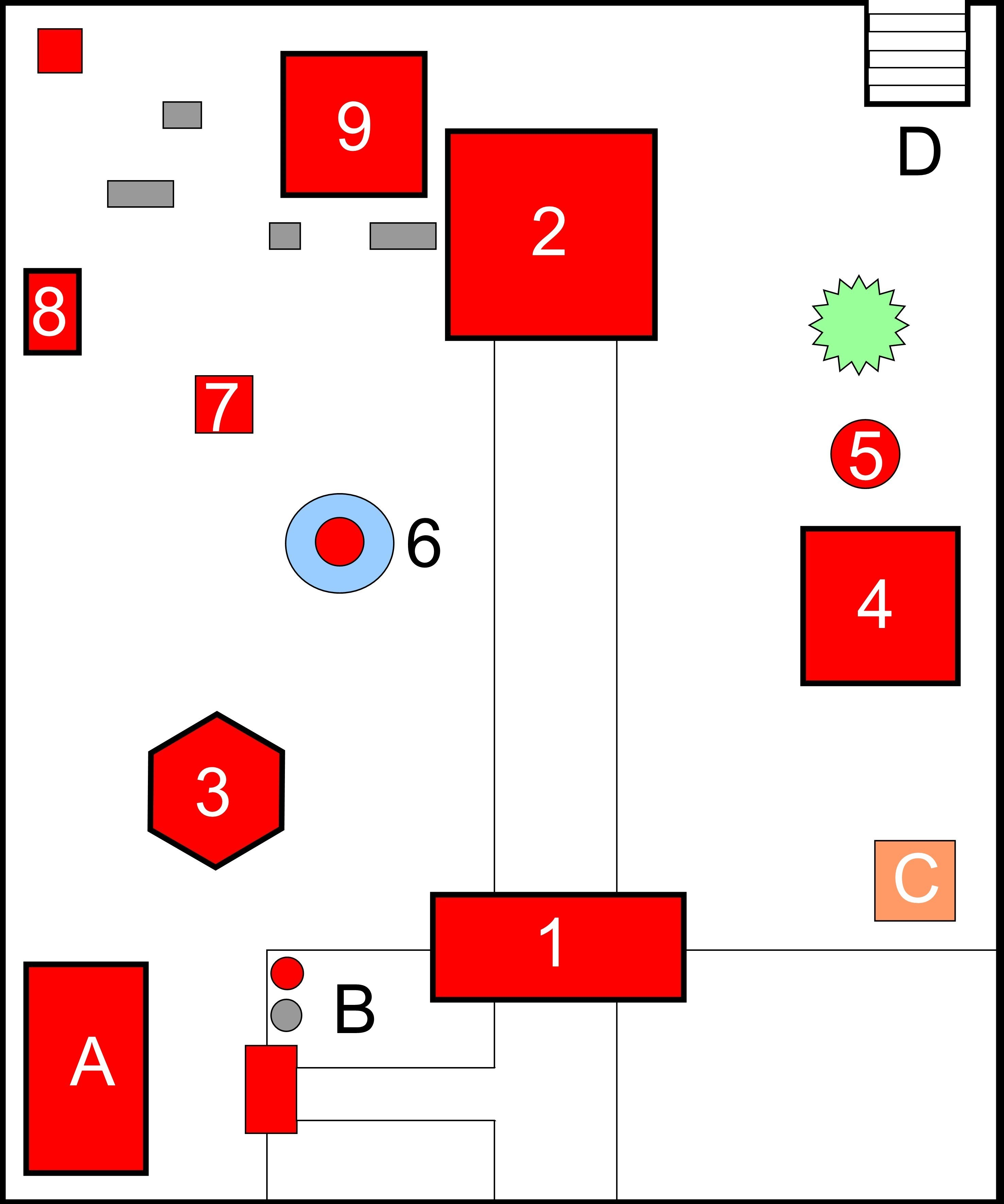 Layout of Setagaya Kannon temple